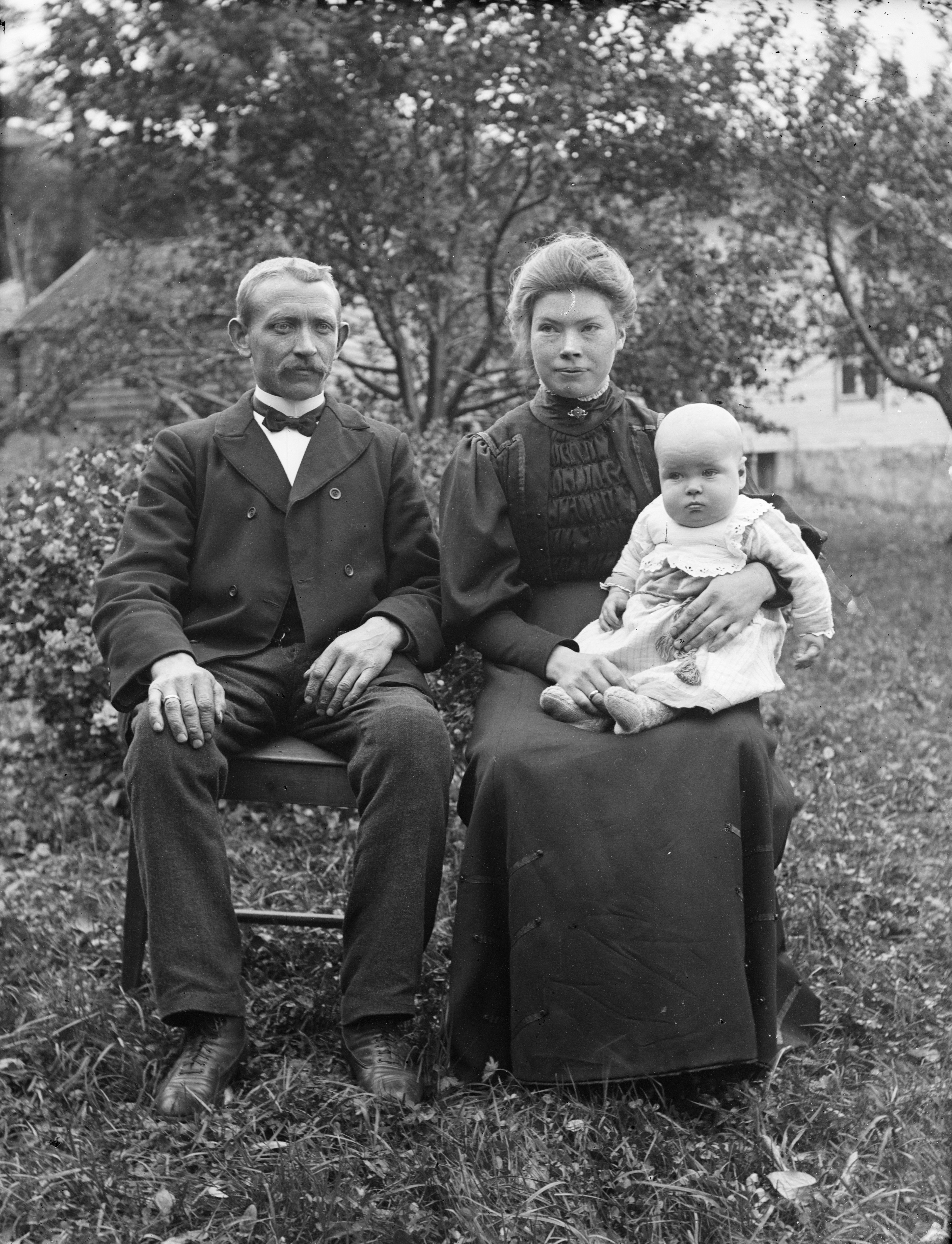 SFFf-1989091.162812 Hans and Ovidia Dørhellen with their son John. Hans worked at the aluminium factory, whereas Ovidia owned a seing machine and made clothes. Photographer: Paul Stang.